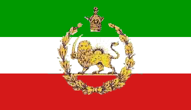 Iranian pre-revolutionary flag